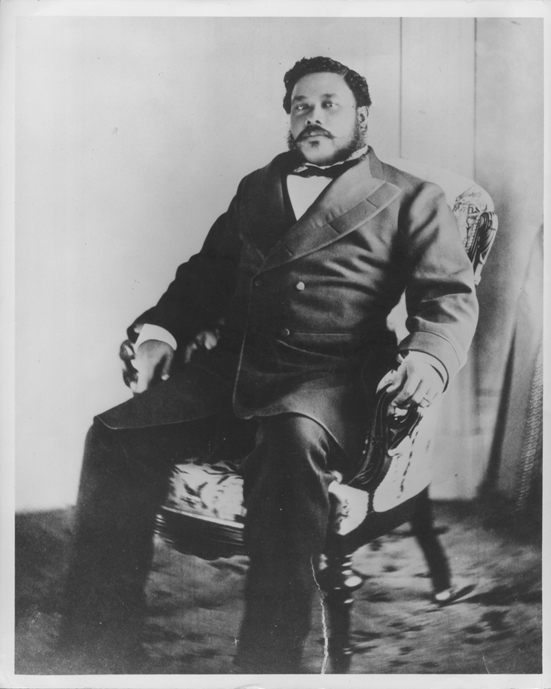 King Kalakaua at the White House, Washington D.C.